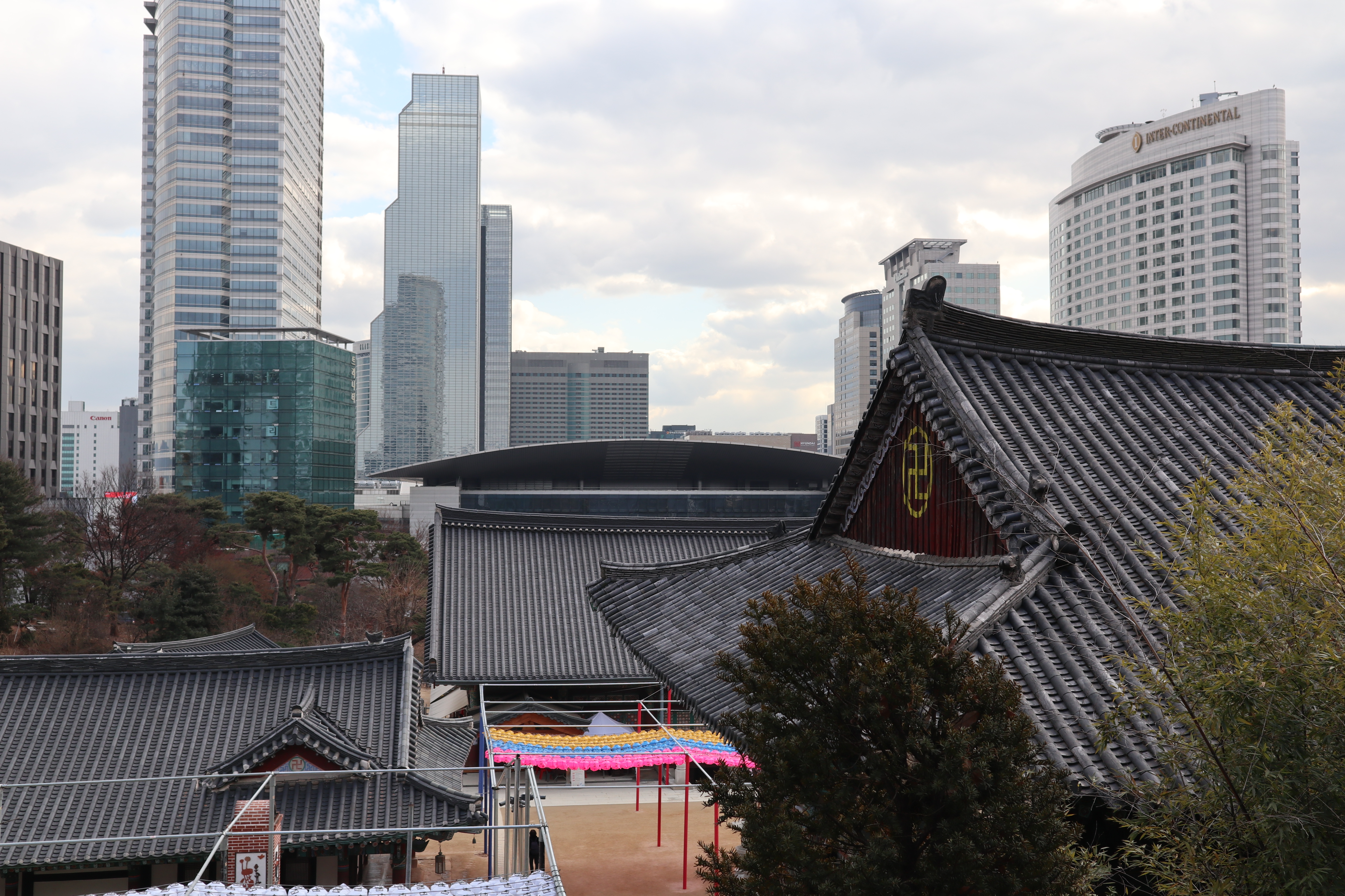 Samseong-dong skyline from Bongeunsa. Architecture such as the Trade Tower, Coex complex, and various hotels are visible.